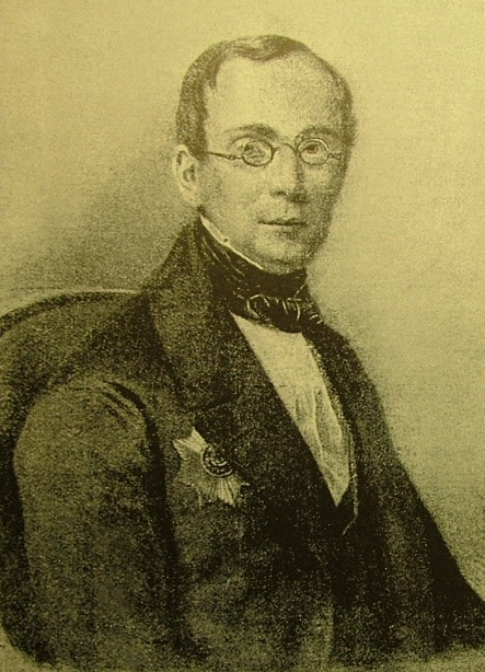 Brok Piotr Fedorovitsch - ministr of Russia (1852 - 1858)